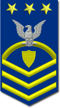 US Coast Guard Master Chief Petty Officer of the Coast Guard insignia